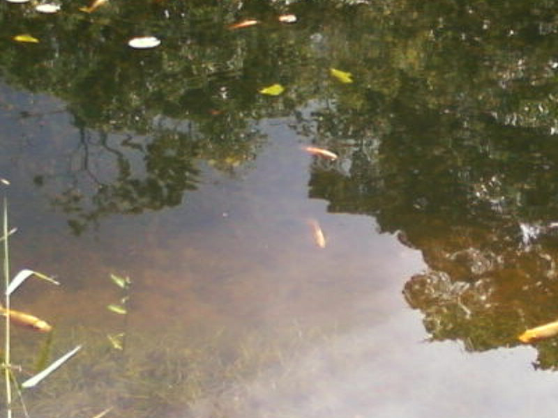 photo